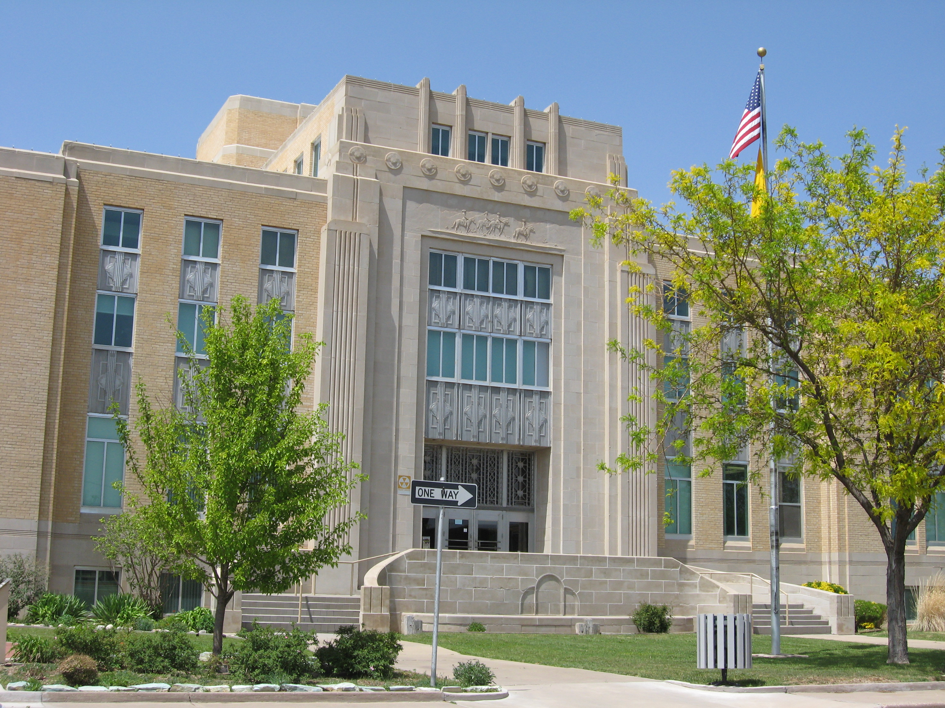 Roosevelt County, New Mexico Court House in Portales